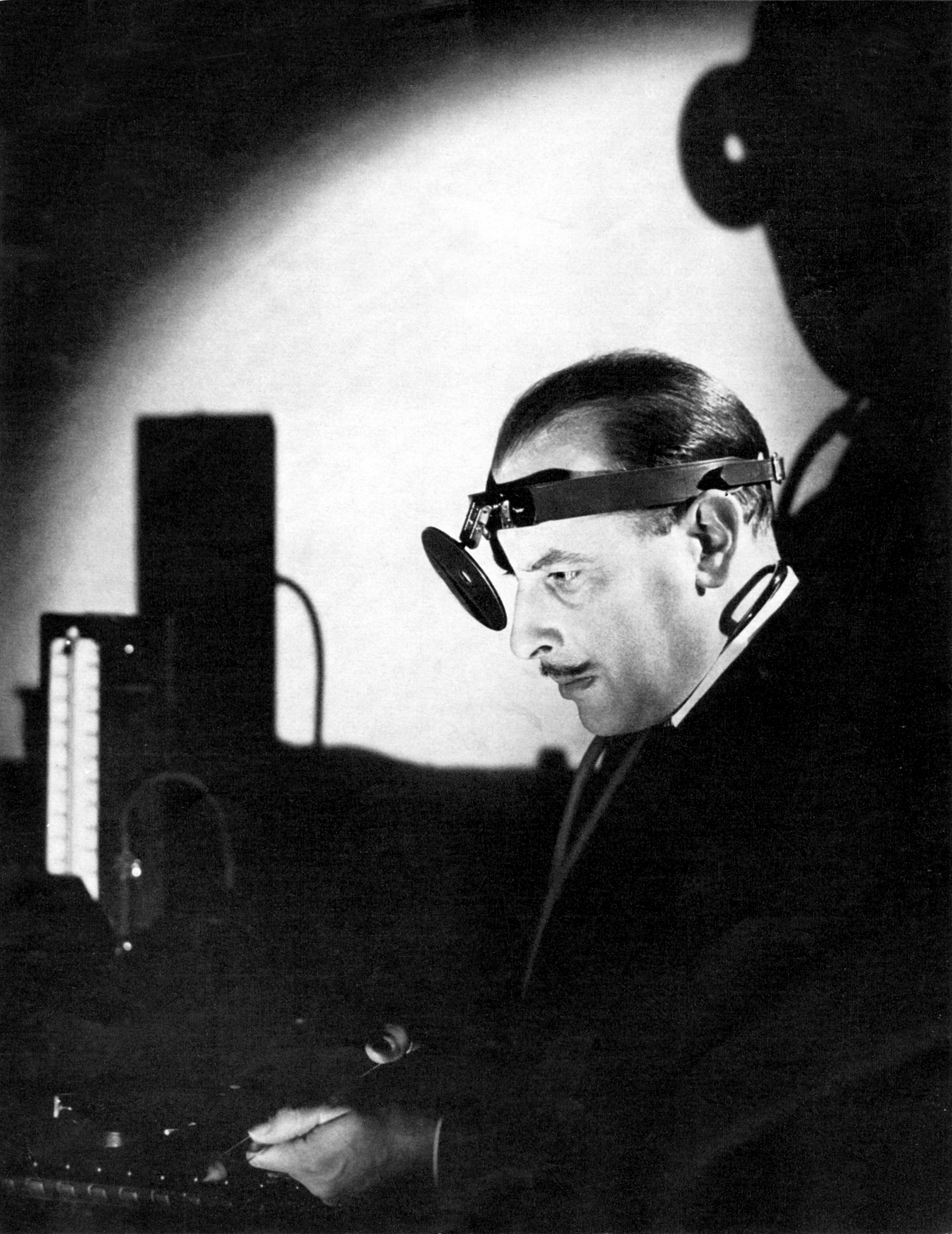 Photograph of Cedric Hardwicke in the 1937 Broadway production of The Amazing Dr. Clitterhouse Caption: As a far cry from his preceding role in Promise, Sir Cedric Hardwicke now takes the title role in a thriller about a doctor who is obsessed by the workings of the criminal mind and body. The good doctor goes bad, becomes a criminal himself, indulges in nefarious crimes, takes his own pulse after his heinous deeds, and gets generally involved as the brains of a London crime syndicate.